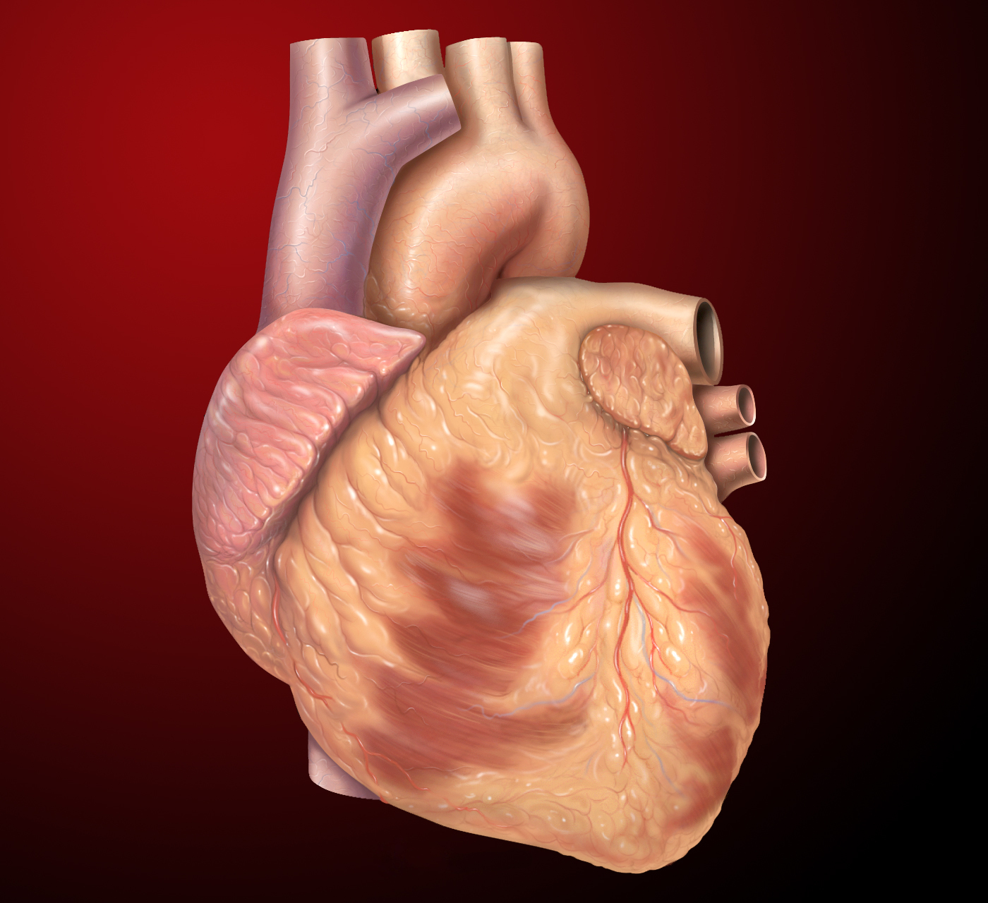 Heart normal anterior exterior anatomy